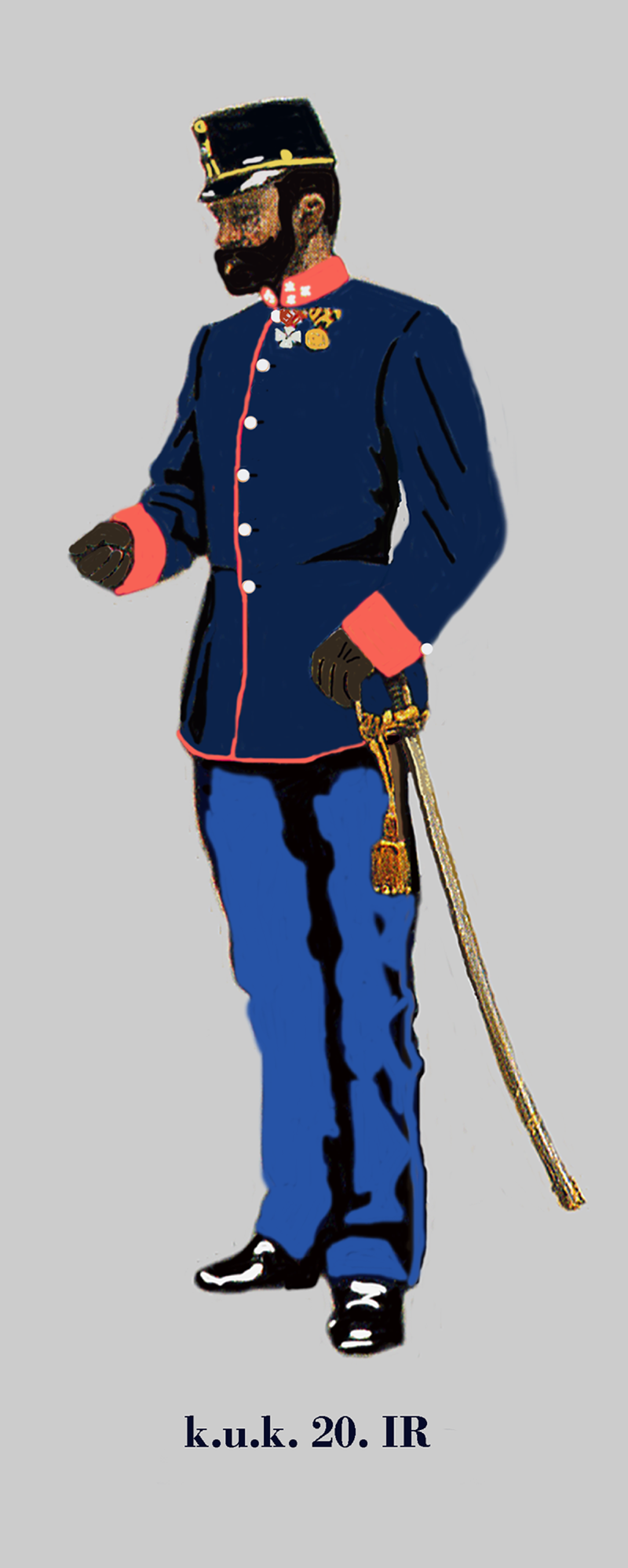 Captain of the Austria-Hungarian (k.u.k.). 20th german Infantry Regiment in Service dress. 1914